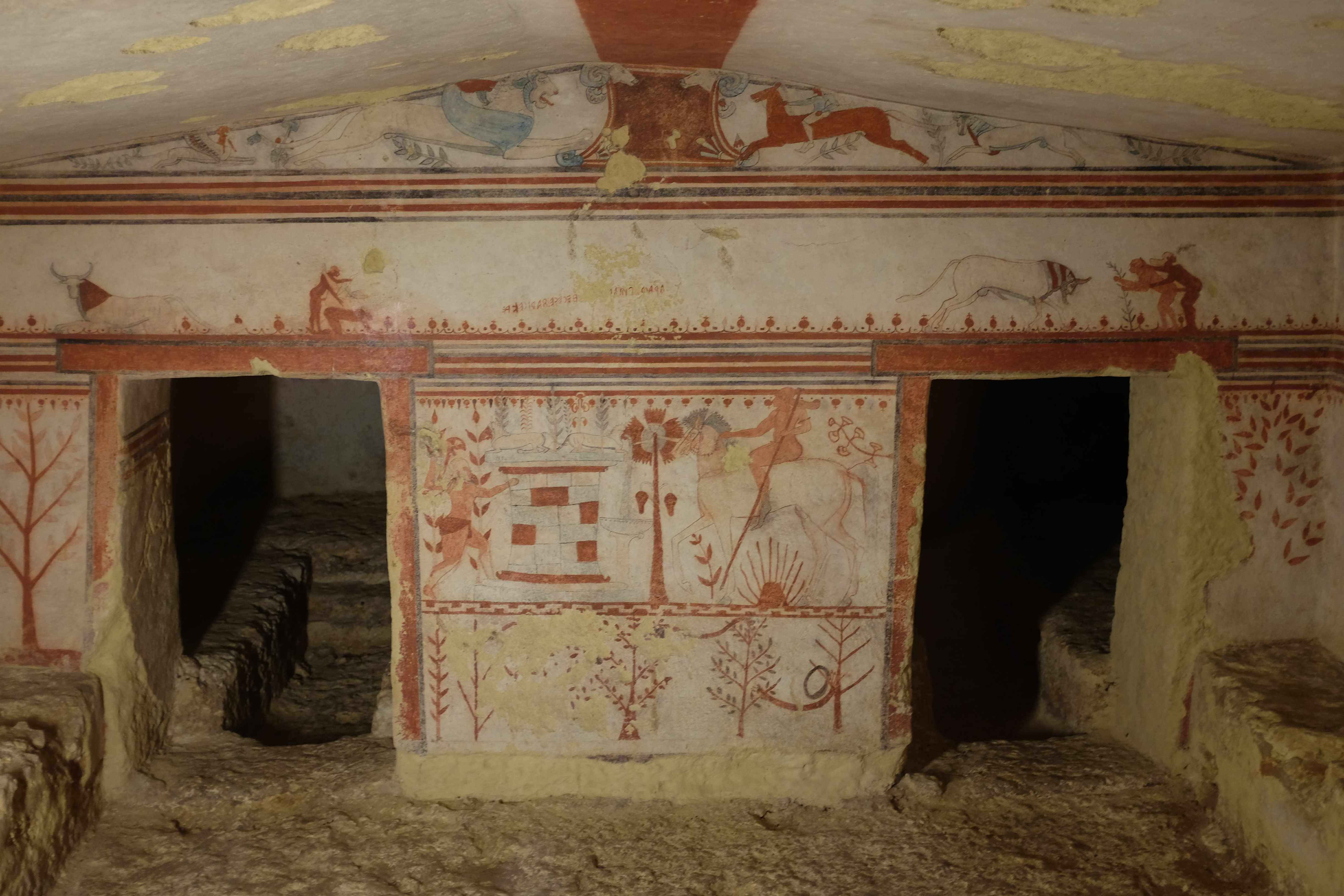 The interior of the Tomb of the Bulls.